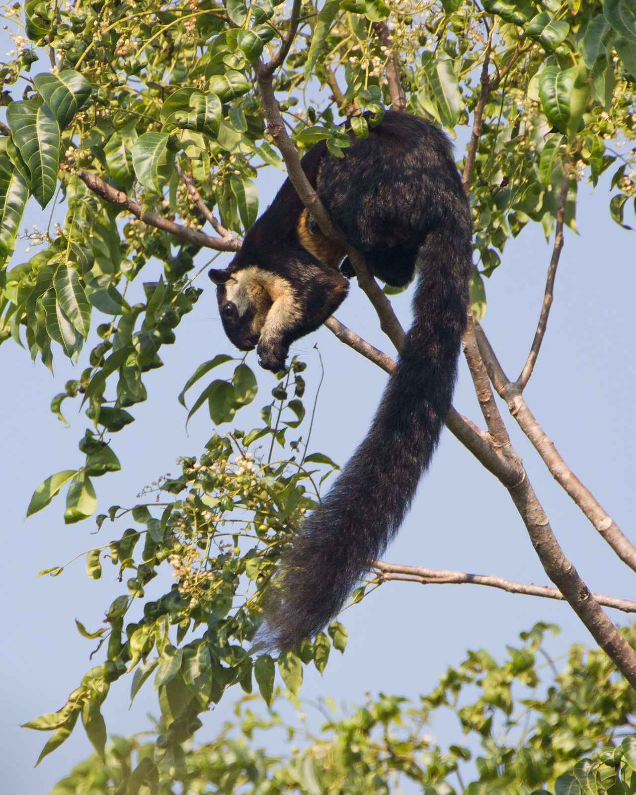 Ratufa bicolor , Khao Yai National Park, Pak Chong, Thailand